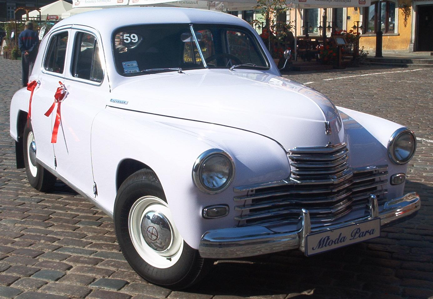 A FSO Warszawa M20 (model 1951-1957), nowadays used only for ceremonial events such as weddings. Taken by ProhibitOnions, Warsaw, 2006.